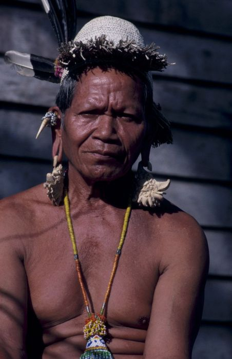 Portrait of a Kayan Dayak man